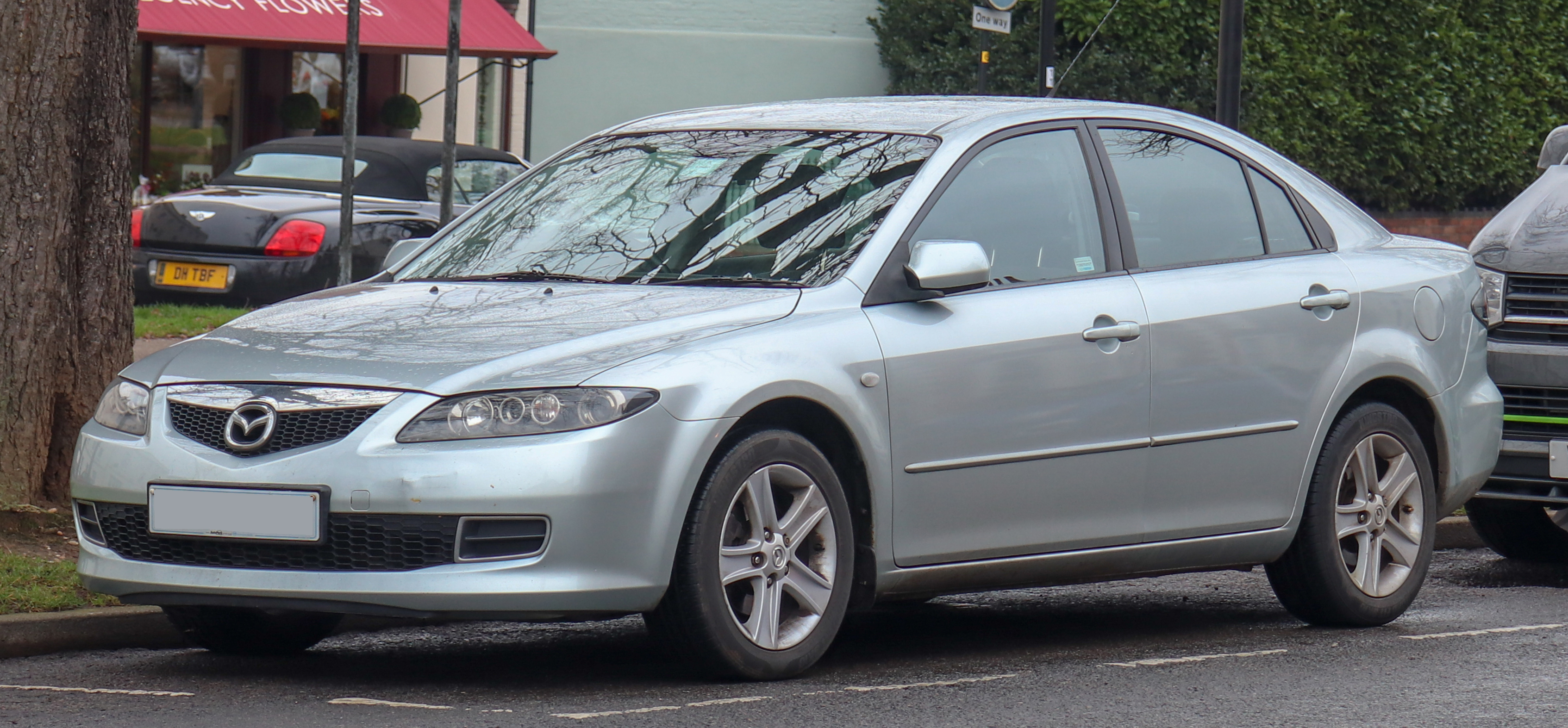 2006 Mazda6 TS 2.0 Front Taken in Leamington Spa